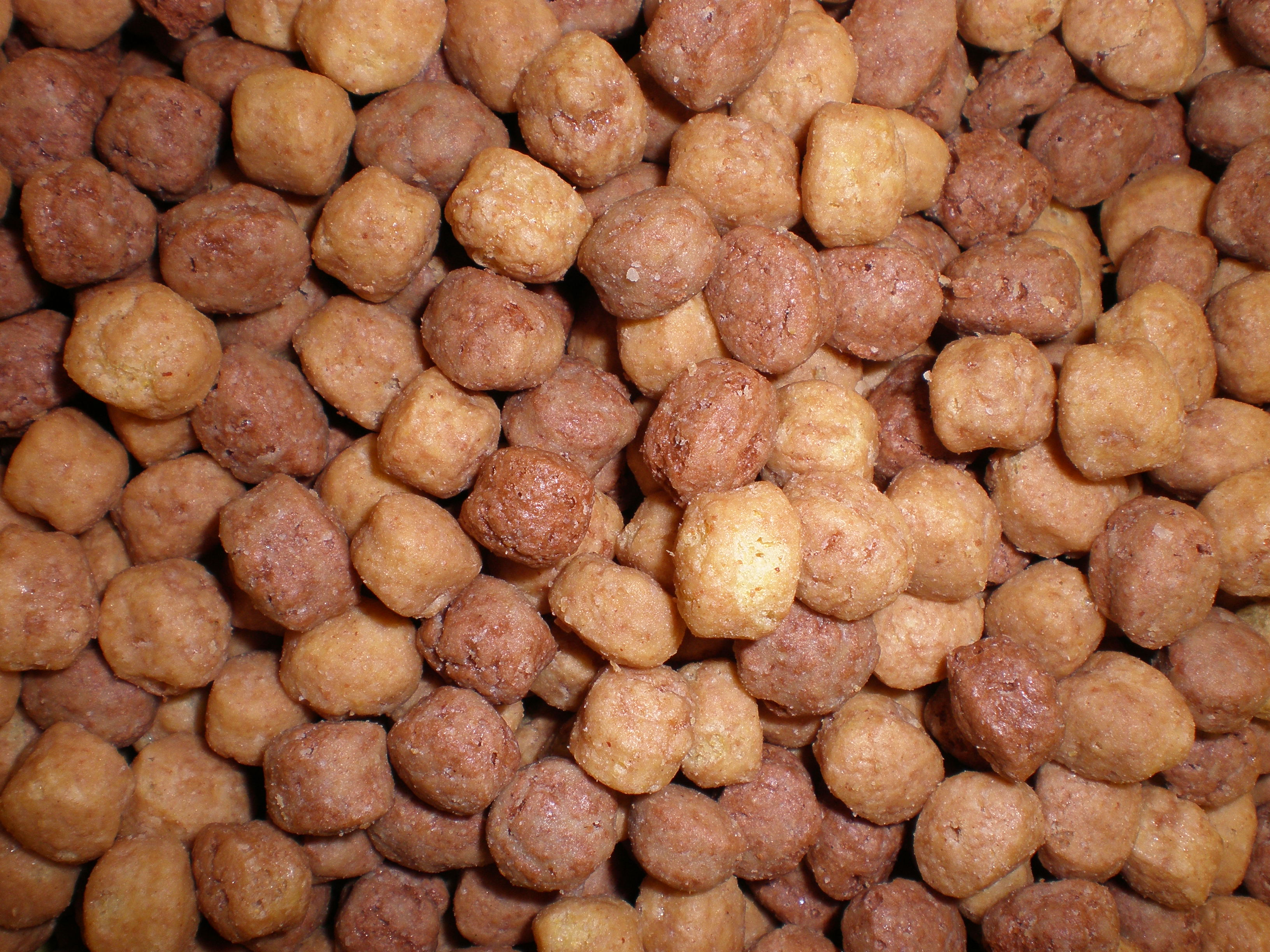 Reese's Puffs cereal